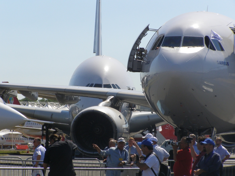 Farnborough Air Show 2006 Photograph by Self